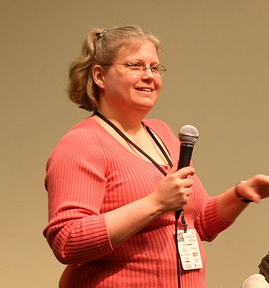 Stephanie Zvan Desiree Schell Maria Walters Taken at Science Online 2011 Creative Commons Licensed Photo, Please feel free to reuse.